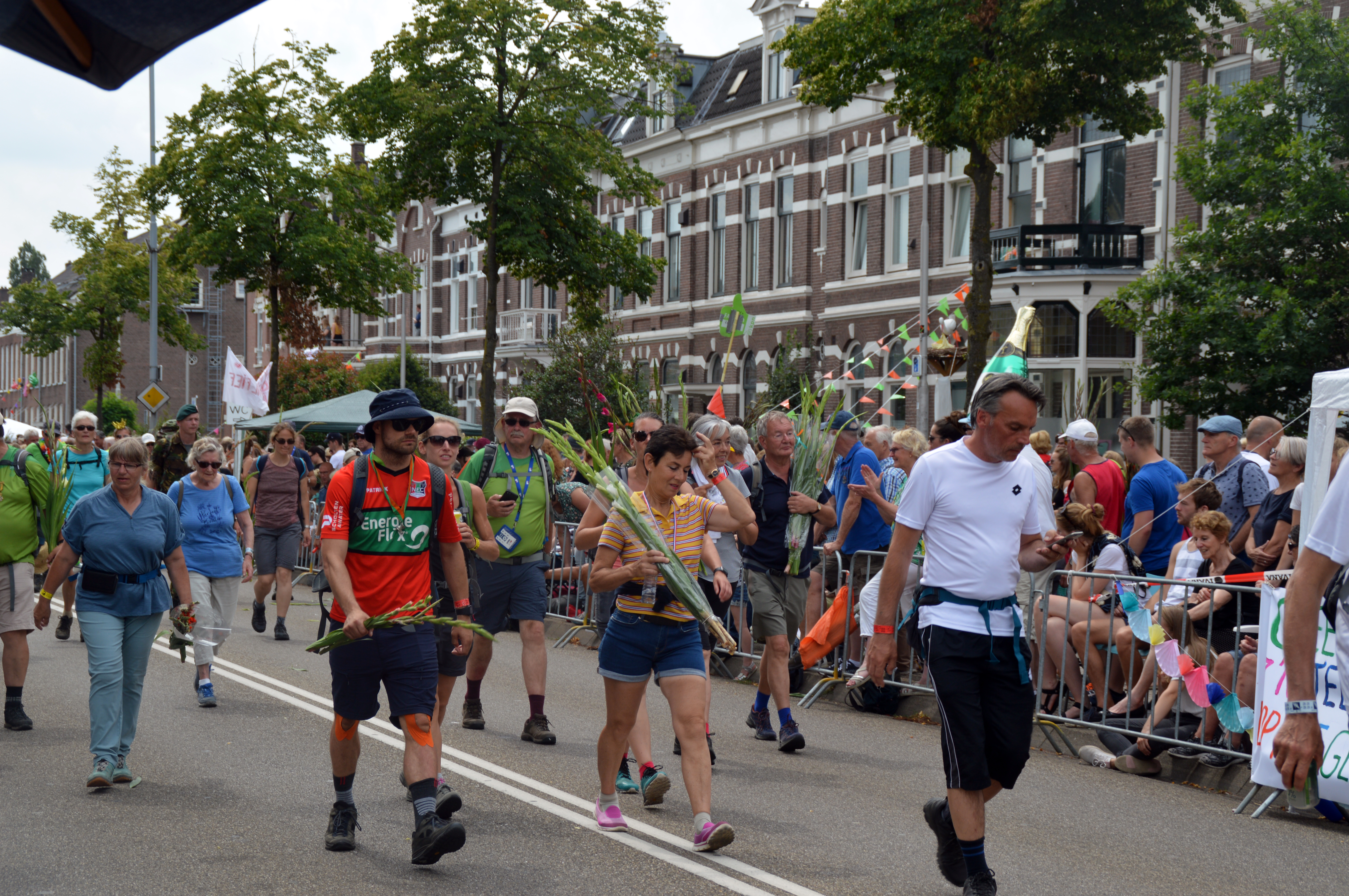 Arrival participants of the Four Days Marches Nijmegen 2019 on the Sint Anna street St Annastraat Via Gladiola International Four Days Marches Nijmegen